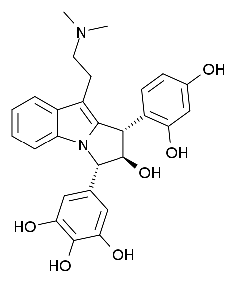 Originally proposed structure of yuremamine, since revised (see File:Yuremamine.svg)